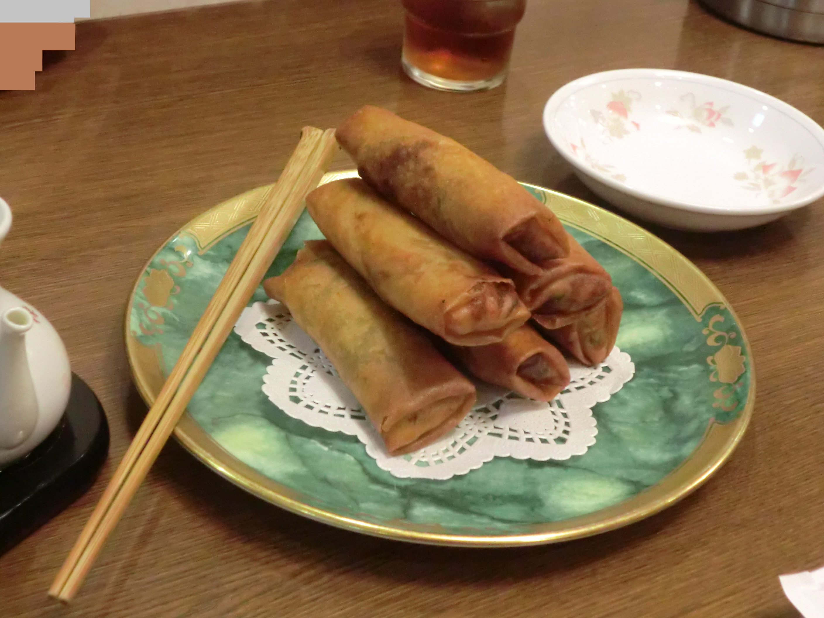 Spring rolls photographed in Kitakyushu,Fukuoka,Japan.